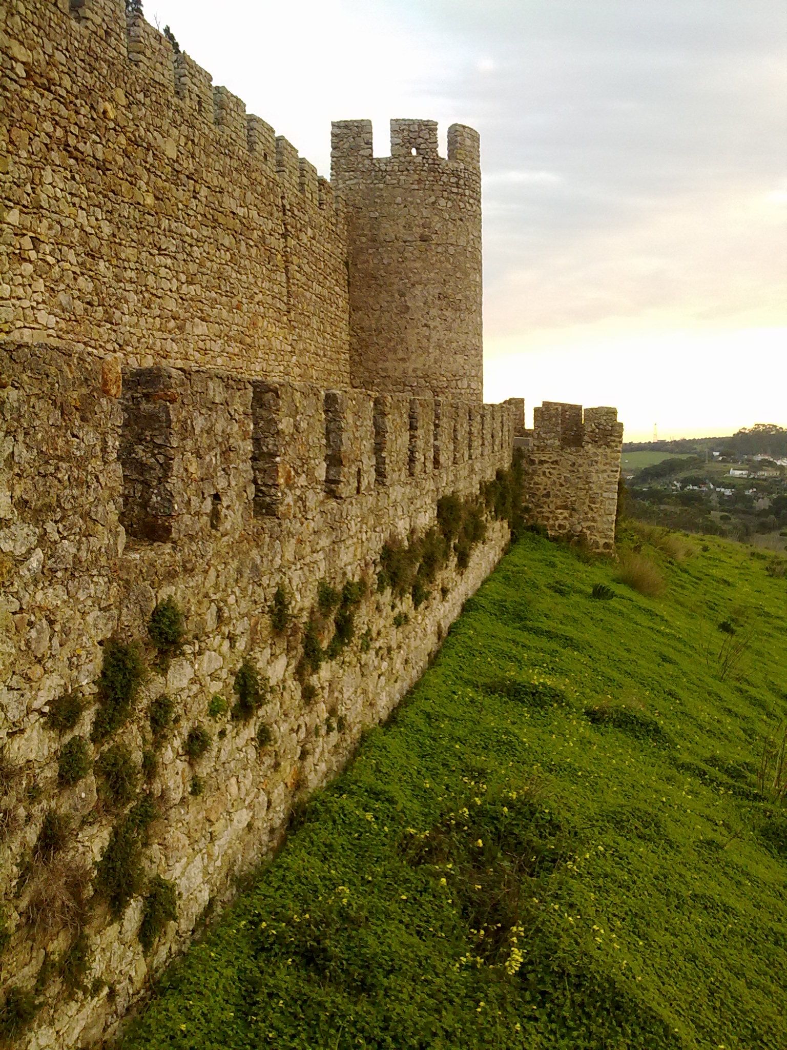 Castle of Santiago do Cacém, Portugal.